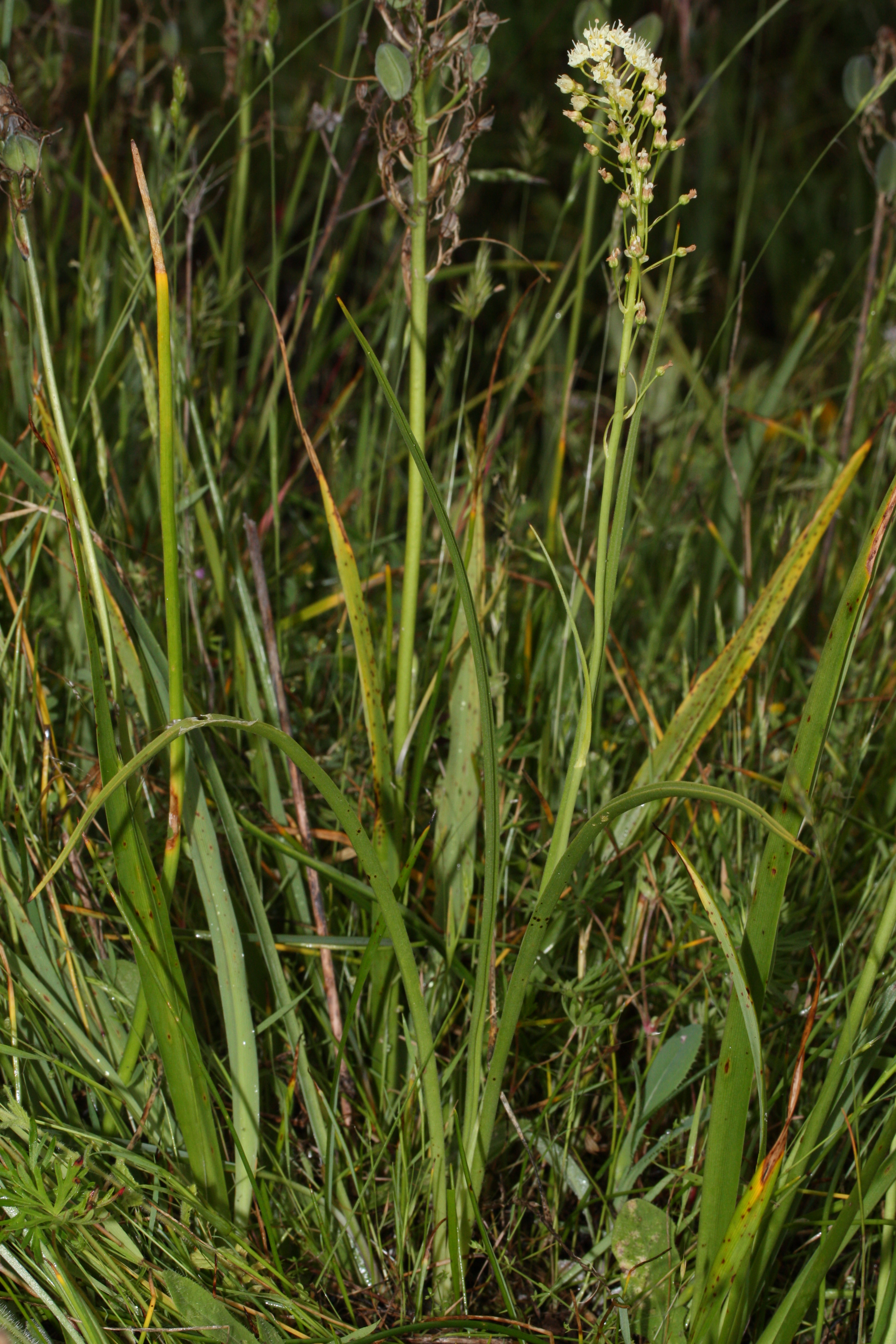 Deadly Zigadenus, Meadow Death-camas